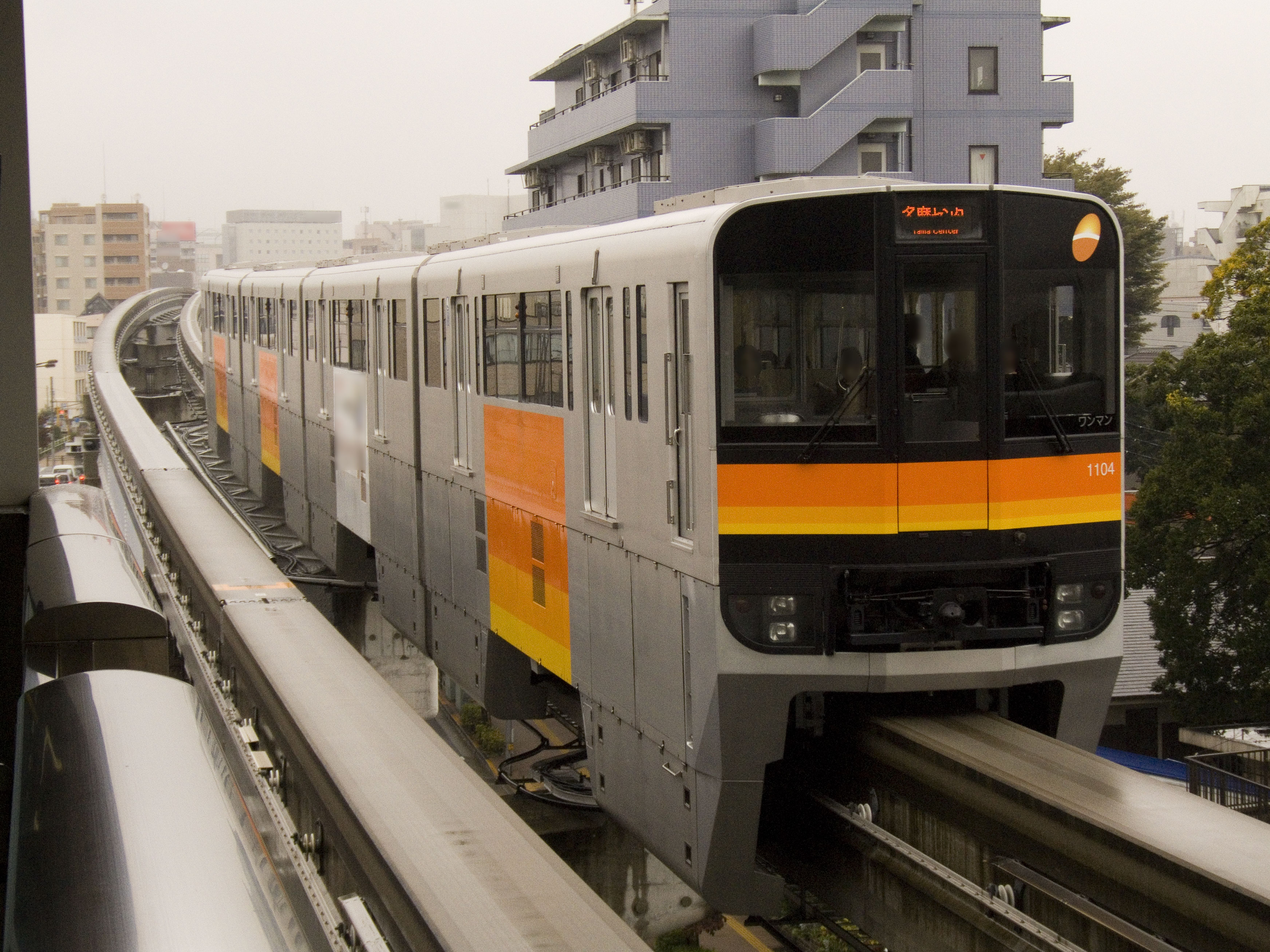 A monorail unit of Tama Toshi Monorail